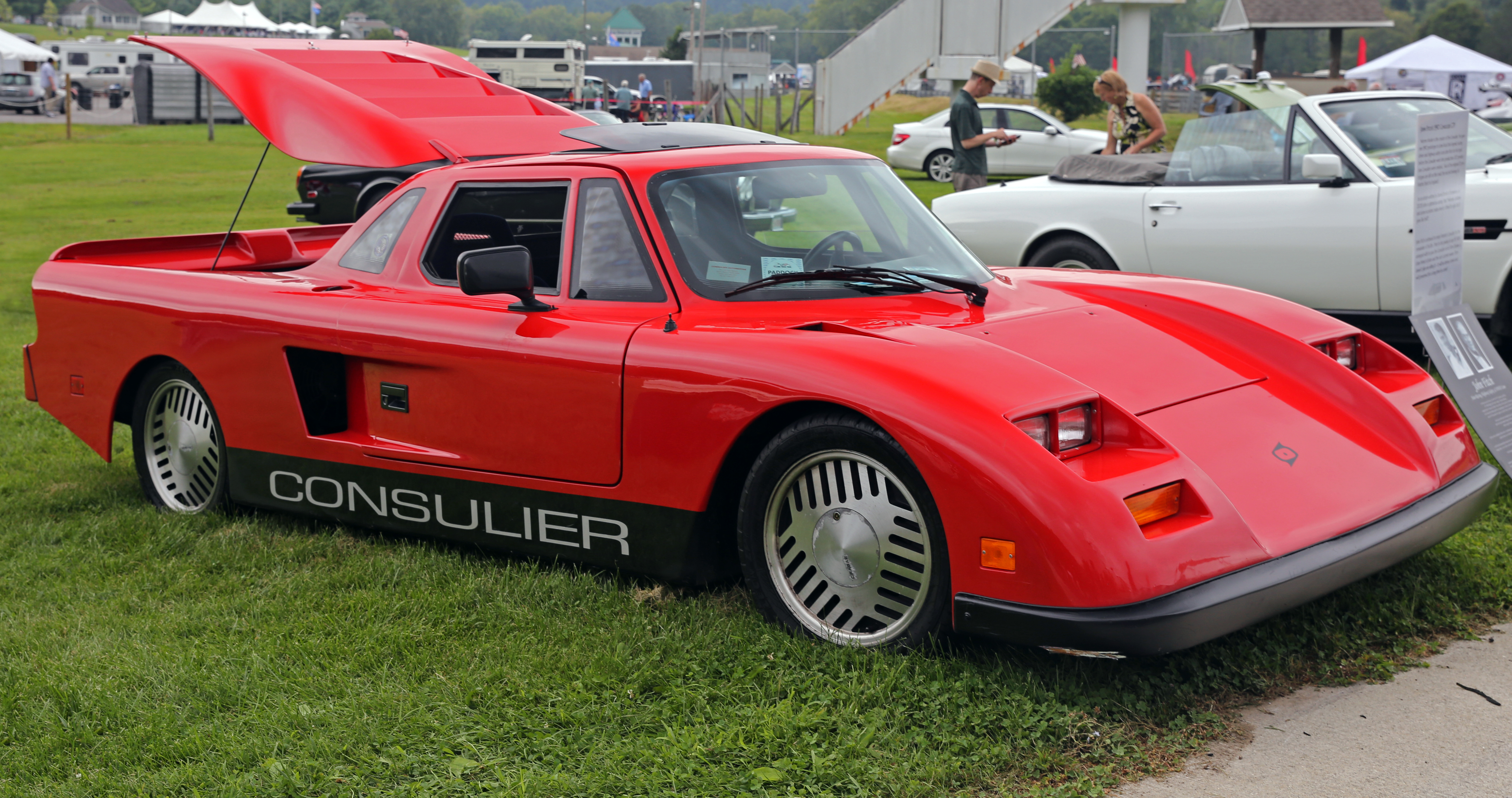 A 1990 (prototype) Consulier GTP-LX at the 2014 Lime Rock Concours d'Élegance. Front right hand view from down low. Ten prototypes were built, of which one more remains. This one used to be John Fitch's personal car.